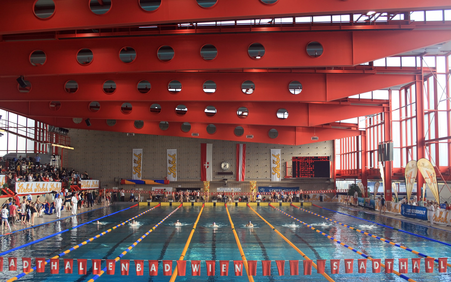 Stadthallenbad/Wiener Stadthalle (Vienna).